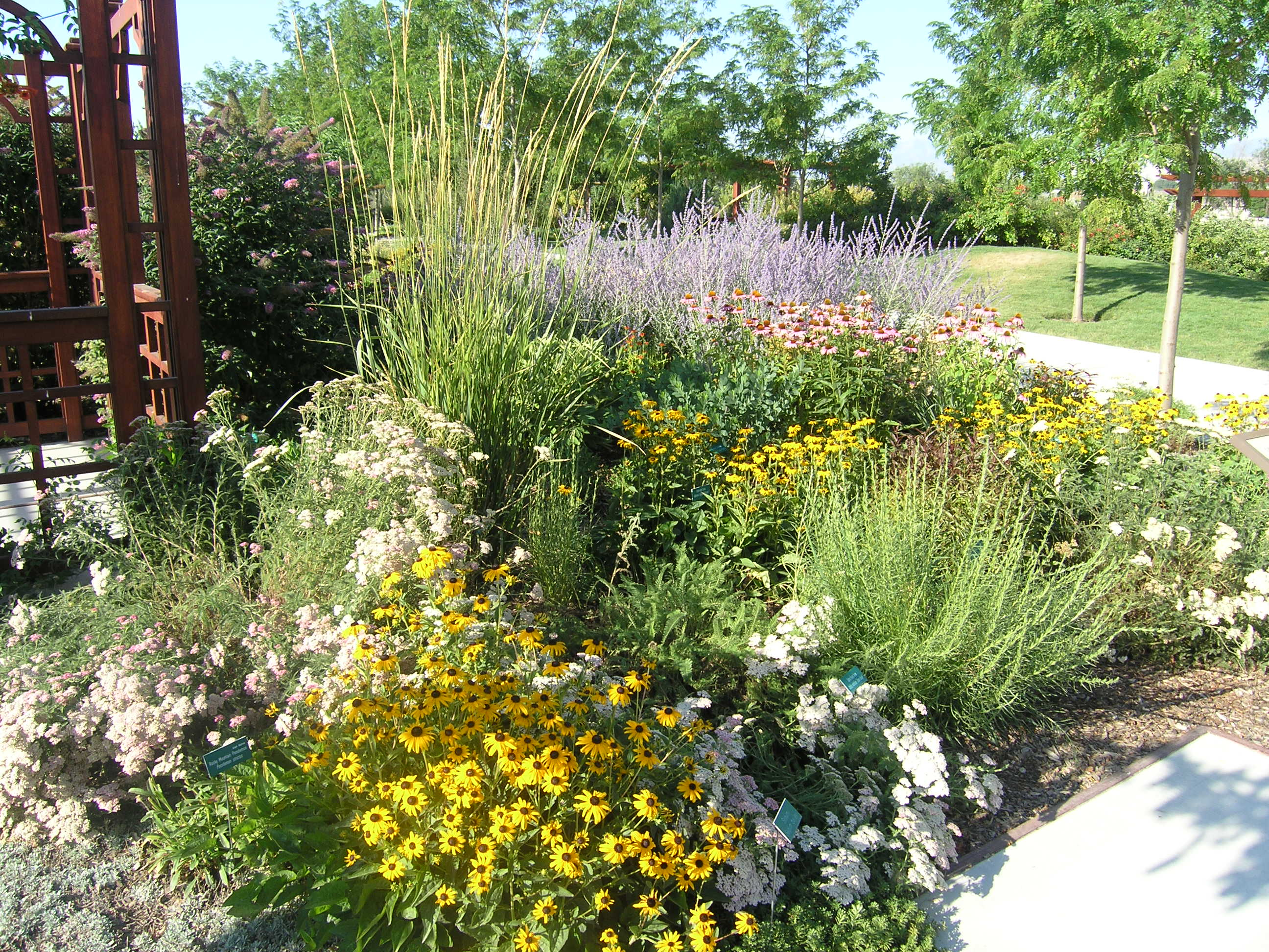 Perennials in Bloom